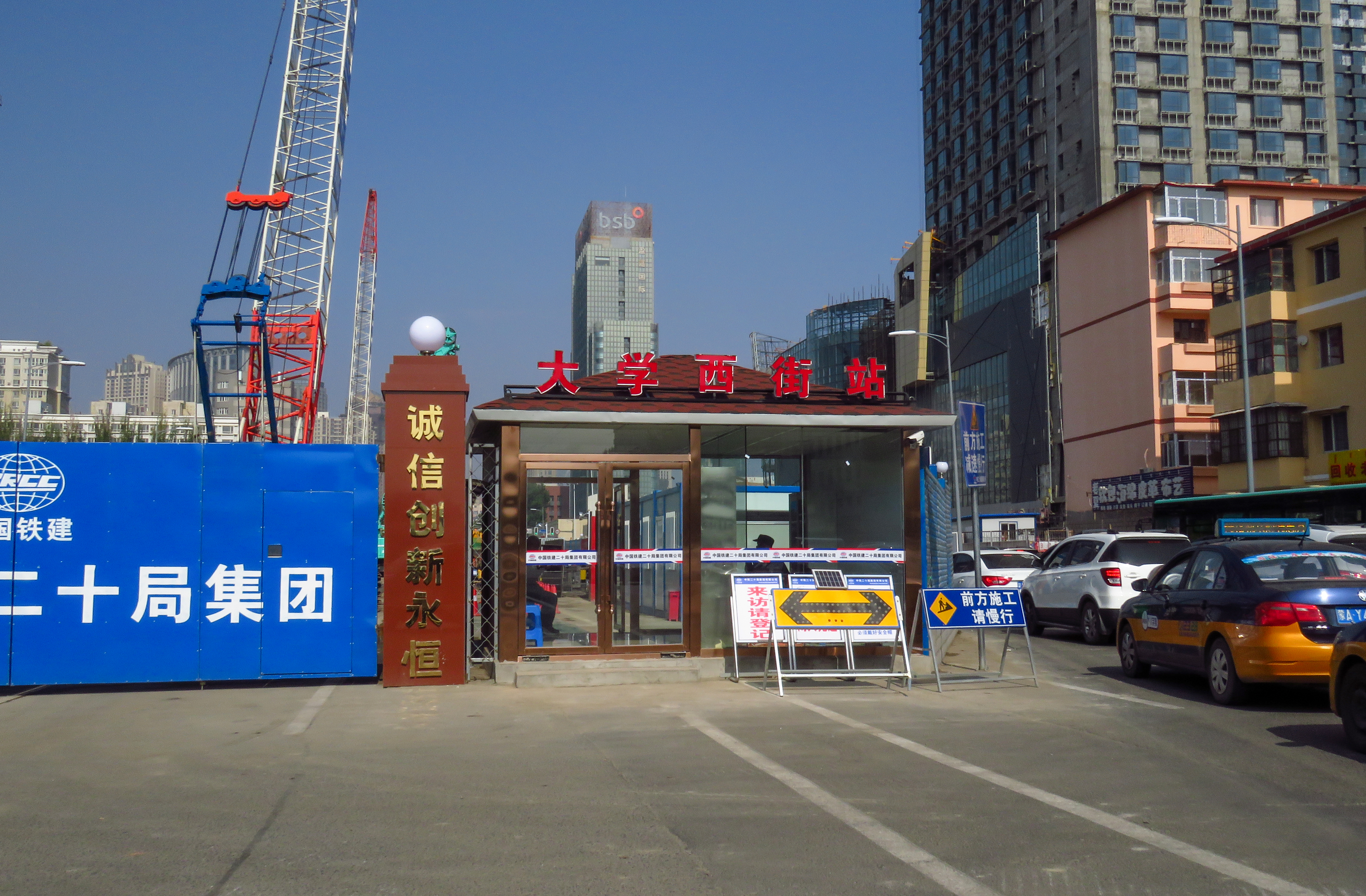 This Line 2 station is on the intersection of Saihan District, Yuquan District and Huimin District.